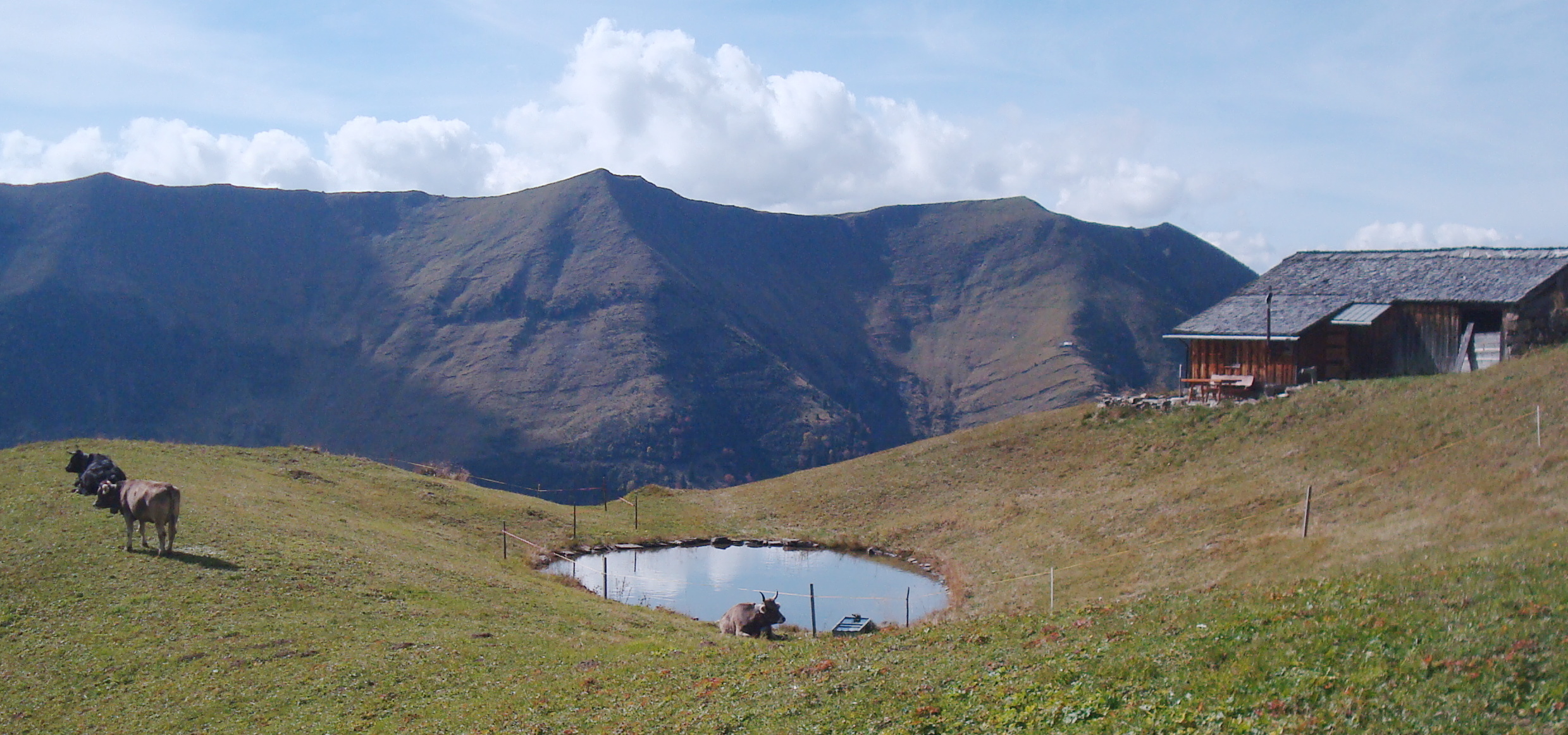 Färmeltal: South View to Albristhubel